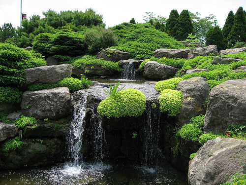 Given permission to use photo by photographer. Website link